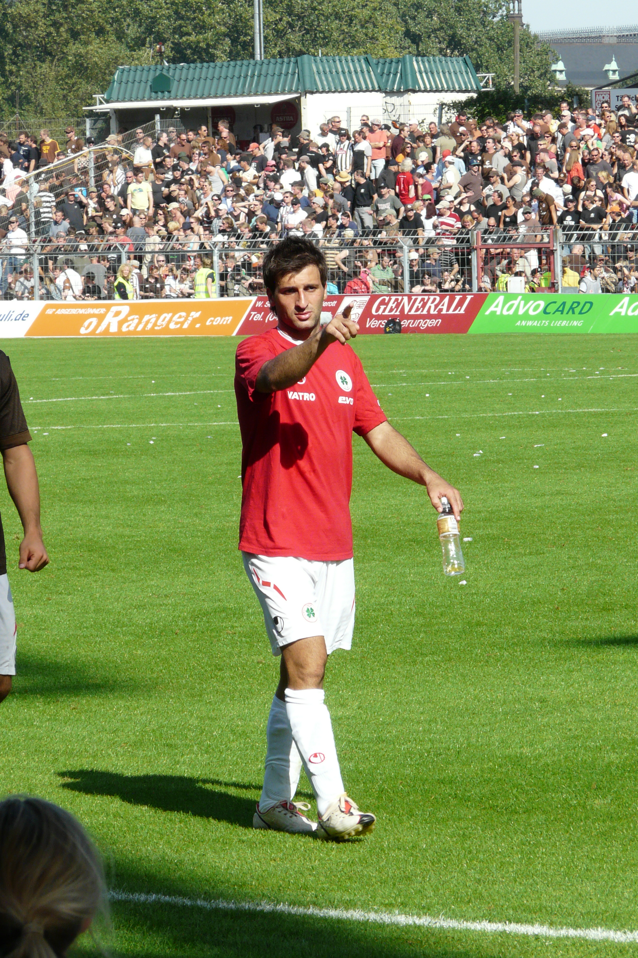 Markus Kaya as Player from Rot-Weiß Oberhausen